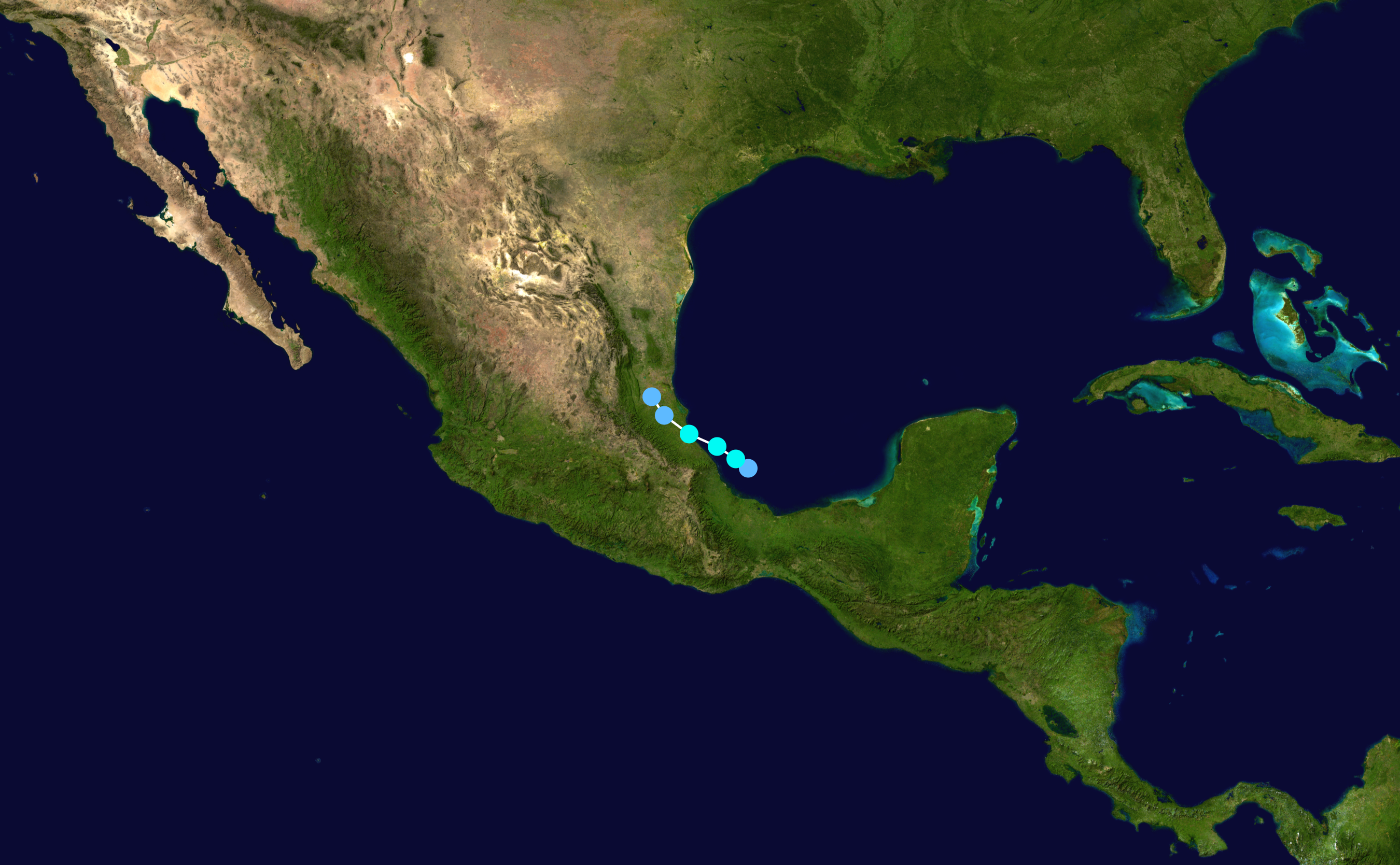 Track map of Tropical Storm Bret of the 2005 Atlantic hurricane season. The points show the location of the storm at 6-hour intervals. The colour represents the storm's maximum sustained wind speeds as classified in the Saffir–Simpson scale (see below), and the shape of the data points represent the nature of the storm, according to the legend below. Saffir–Simpson scale Tropical depression≤38 mph≤62 km/h Category 3111–129 mph178–208 km/h Tropical storm39–73 mph63–118 km/h Category 4130–156 mph209–251 km/h Category 174–95 mph119–153 km/h Category 5≥157 mph≥252 km/h Category 296–110 mph154–177 km/h Unknown Storm type Tropical cyclone Subtropical cyclone Extratropical cyclone / Remnant low / Tropical disturbance / Monsoon depression